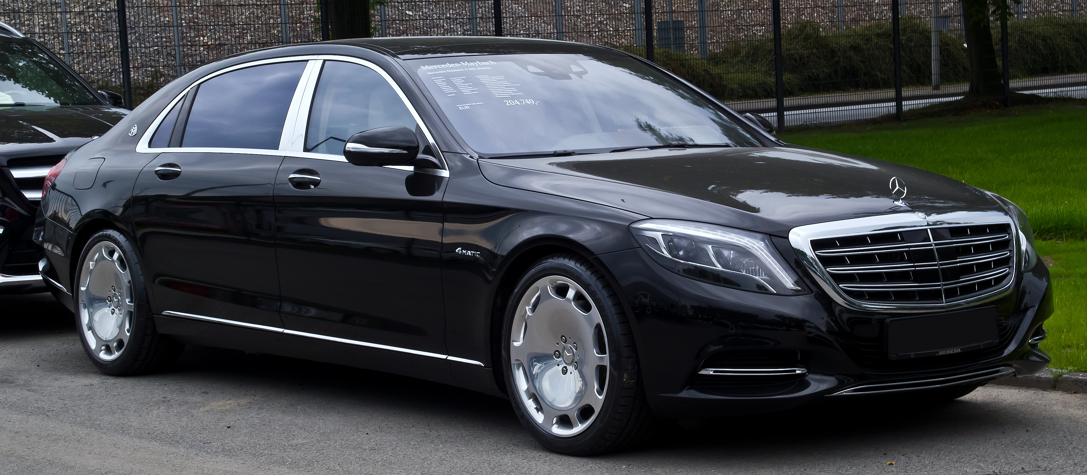 Mercedes-Maybach S 500 4MATIC (X 222)